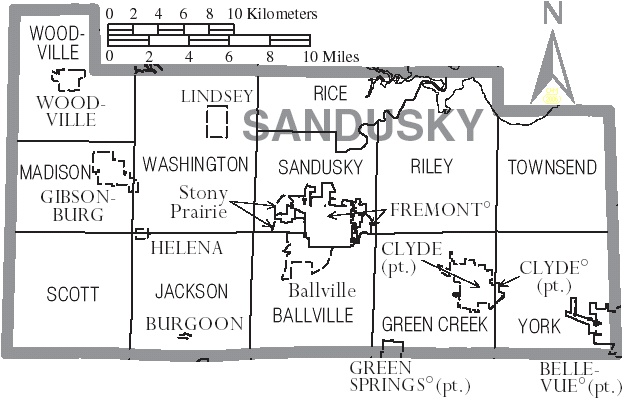 Map of Sandusky County, Ohio, United States with township and municipal boundaries